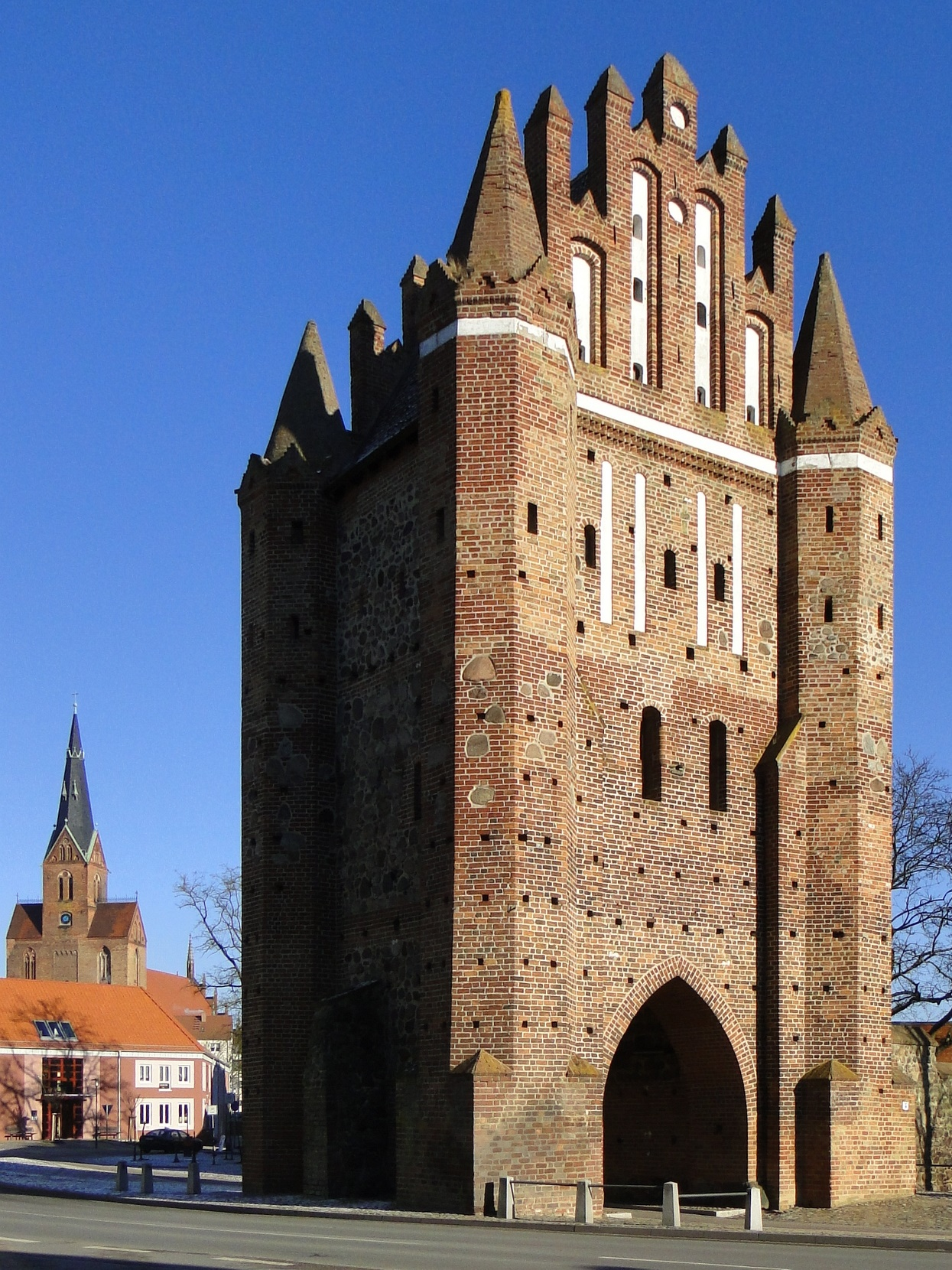 City gate Neubrandenburger Tor in Friedland, district Mecklenburg-Strelitz, Mecklenburg-Vorpommern, Germany